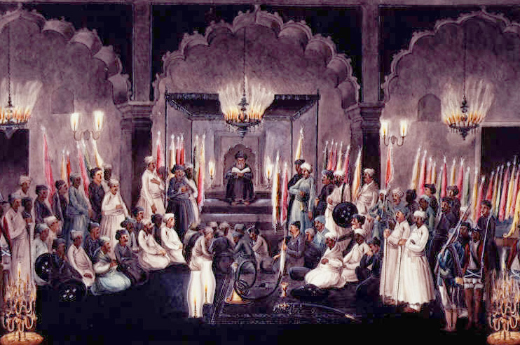 Asaf-al-daula (Nawab of Oudh 1775-97), mourning on Muharram at Lucknow